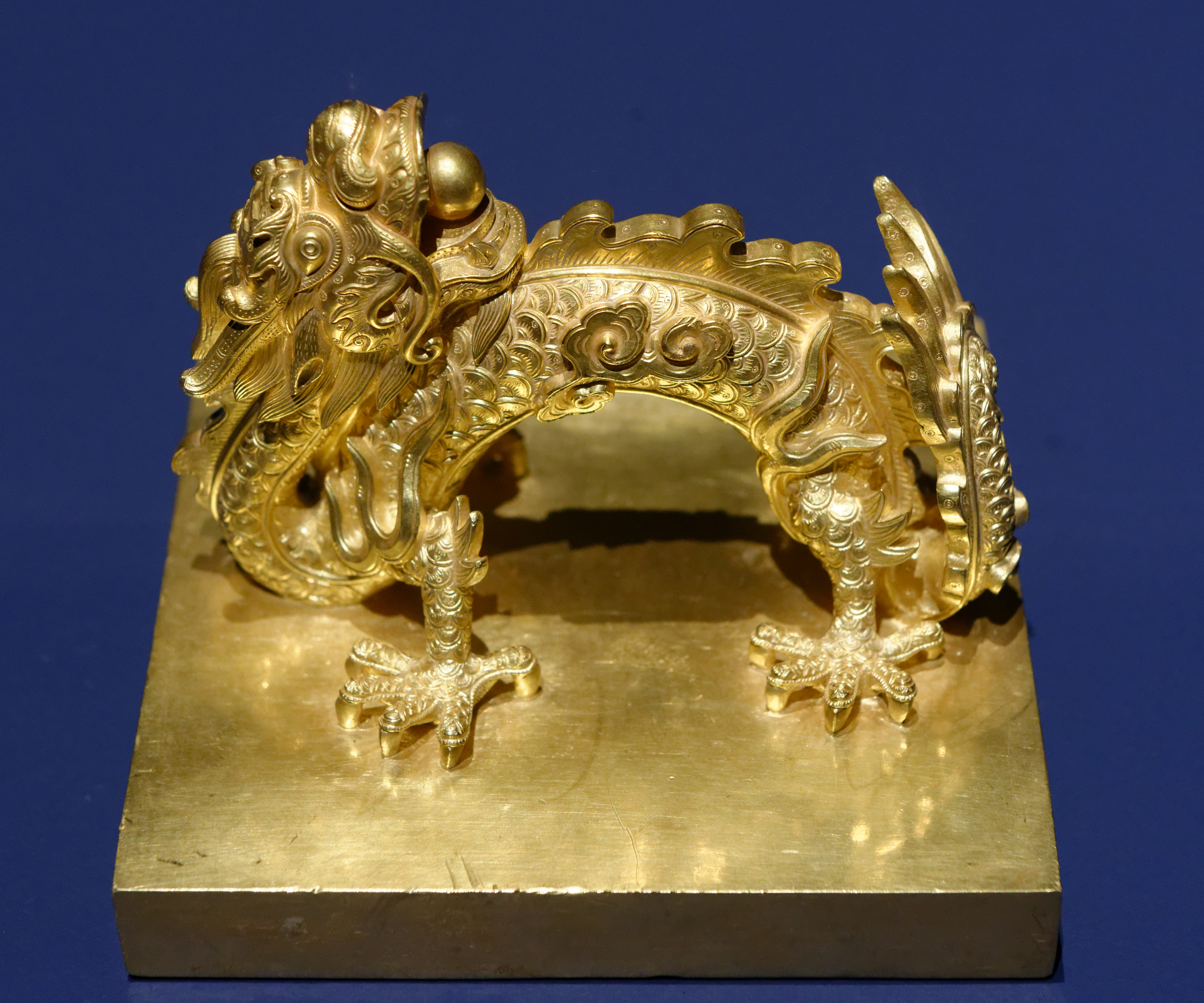 Seal of Emperor Gia Long with a handle in the shape of a dragon.